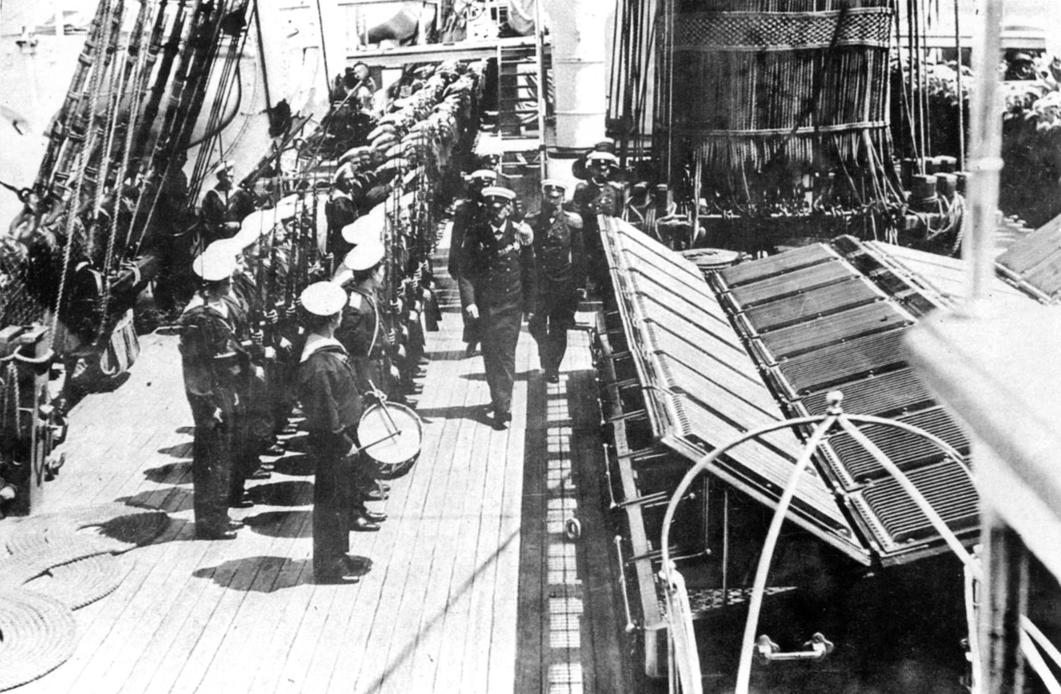 The Imperial Russian admiral N. I. Kaznakov on armoured frigate Dmitriy Donskoy, 1893.